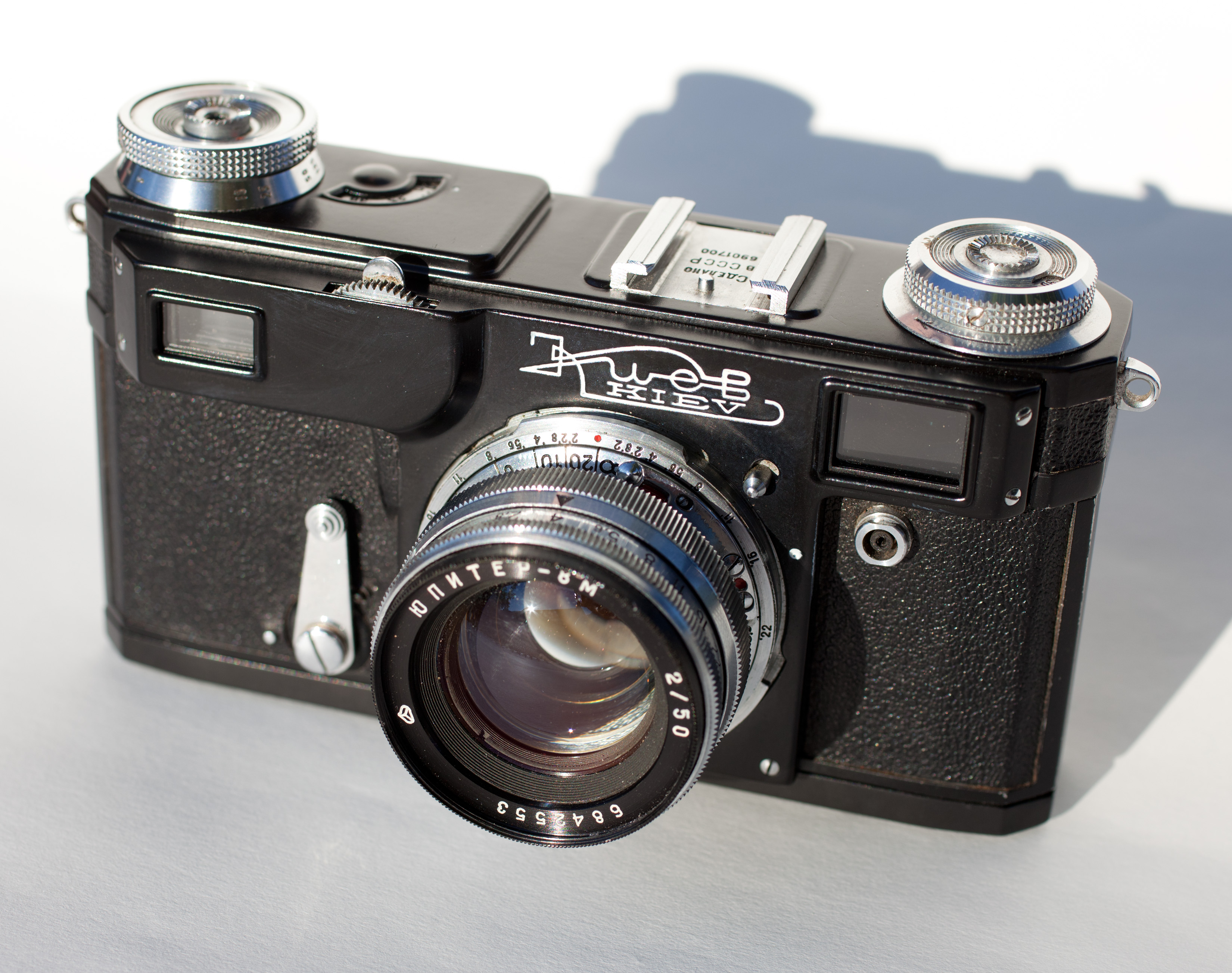 Bought this baby at the Action Camera swap meet for $35. Sweet! And it works! Update: ran a roll of film through it and shockingly, all images were sharp, properly exposed with no light fog from bad seals. It feels like it was milled from a single piece of steel -- at least it seems to weigh as much. While this is no Leica, the fit and finish is far better than you'd expect from a Soviet product made in a factory called "The Arsenal." The 50mm f/2 Jupiter 8 lens is surprisingly sharp and contrasty. I'm guessing this one was made in 1969, although it's hard to tell for sure. Operation is really too slow (at least for me) to use as a Henri Cartier-Bresson street camera. By today's standards it's large and each exposure requires deliberate thought. I told my daughter I wanted to teach her how to shoot with it. She rolled her eyes and said, "I'm sure that would be a very useful skill if I ever plan to photograph the post-apocaliptic wasteland."